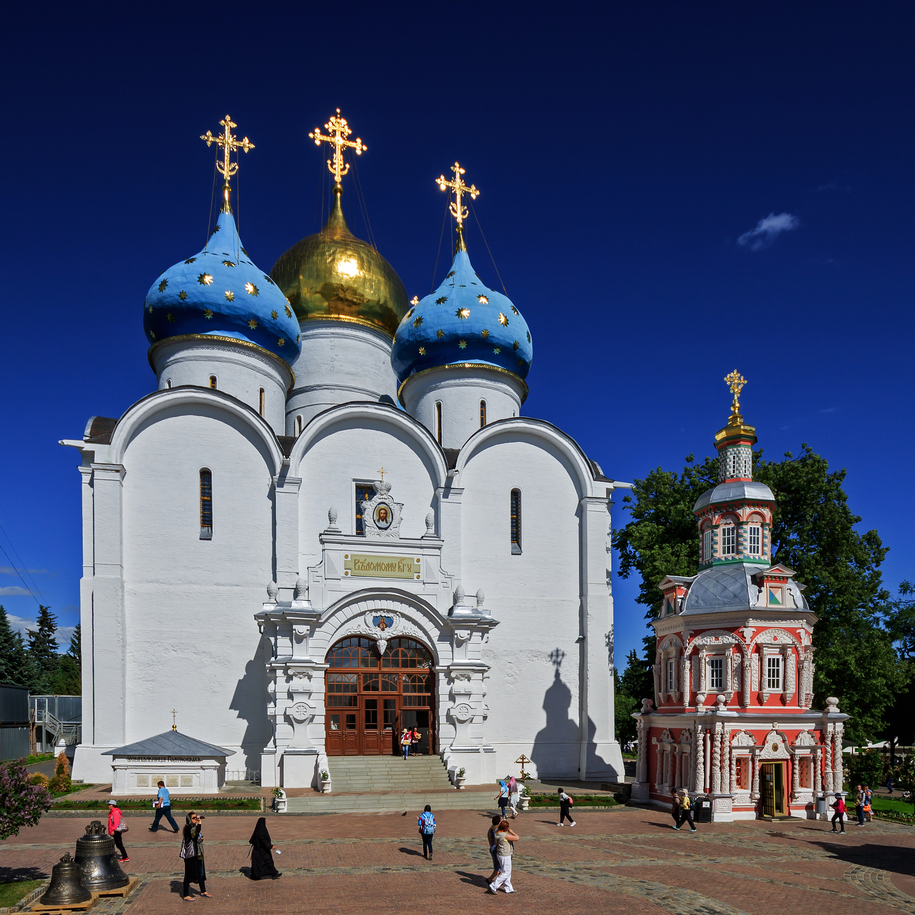 Trinity Lavra of St. Sergius in Sergiev Posad, Moscow Oblast, Russia: Assumption Cathedral